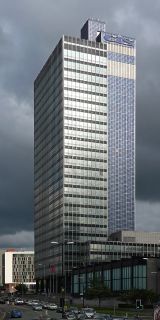 The CIS Tower in Manchester. Seen from the north west.